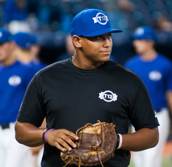 Josh Naylor in 2014